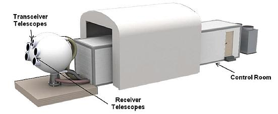 Image of the Lunar Lasercom Ground Terminal of the LLCD mission